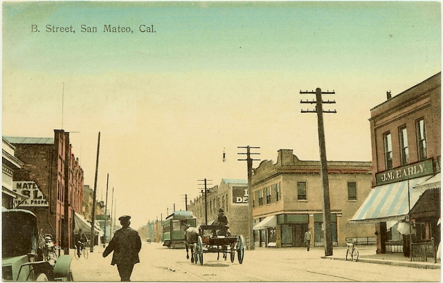 Postcard depicting B Street in San Mateo. Store Web page states: "Original, circa 1909 Hand-Tinted postcard. Caption reads "B Street, San Mateo, Calif". Interurban Railroad Car riding up the street. Card is postally unused"